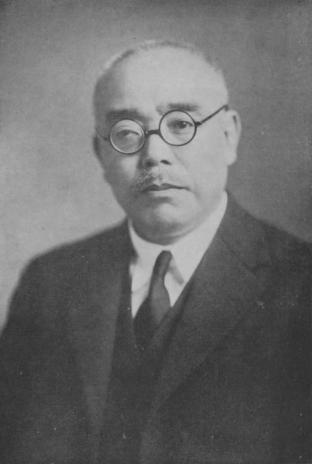 Portrait of Uchida Nobuya (内田信也, 1880 – 1971)